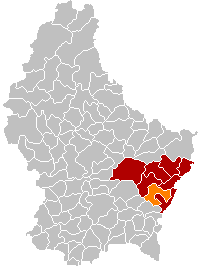 Own edit of Kanton GrevenmacherLocatie.png